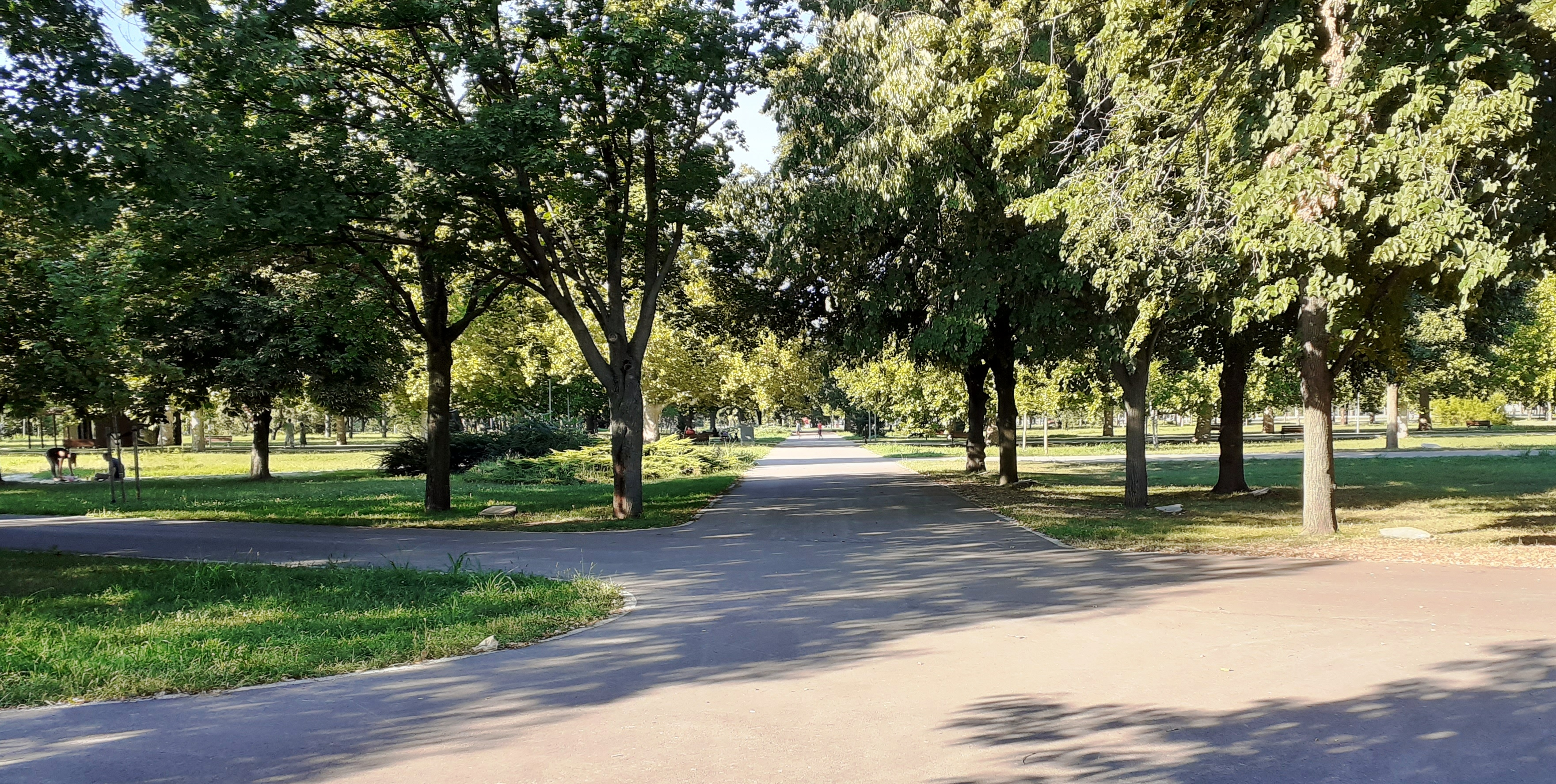 Friendship Park in Ušće Park, New Belgrade